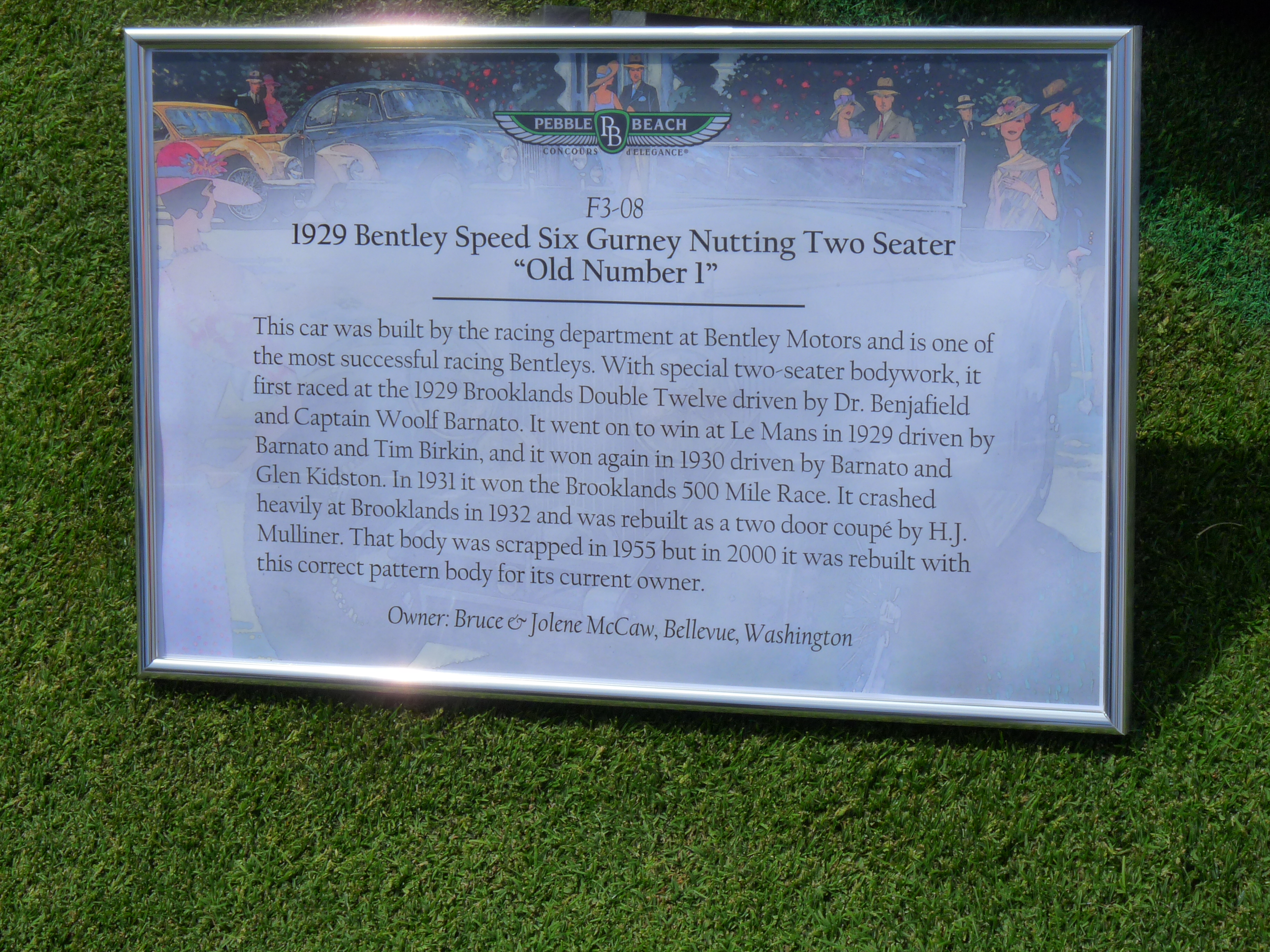 1929 Bentley Speed Six Gurney Nutting "Old Number 1"